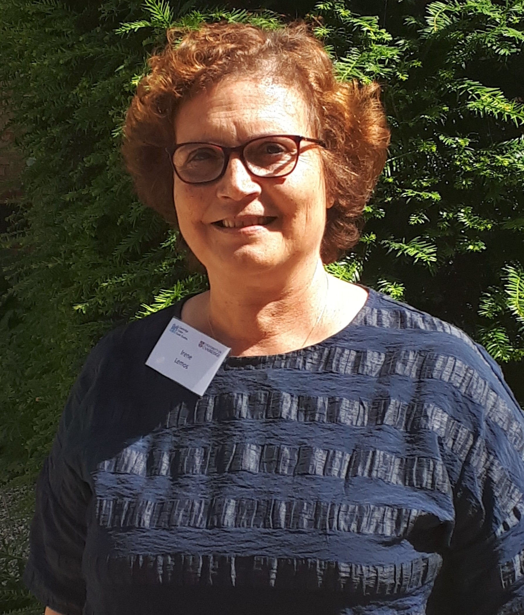 Irene Lemos, Professor of Classical Archaeology at the University of Oxford, at the launch of the Cambridge Centre for Greek Studies on June 28 2019